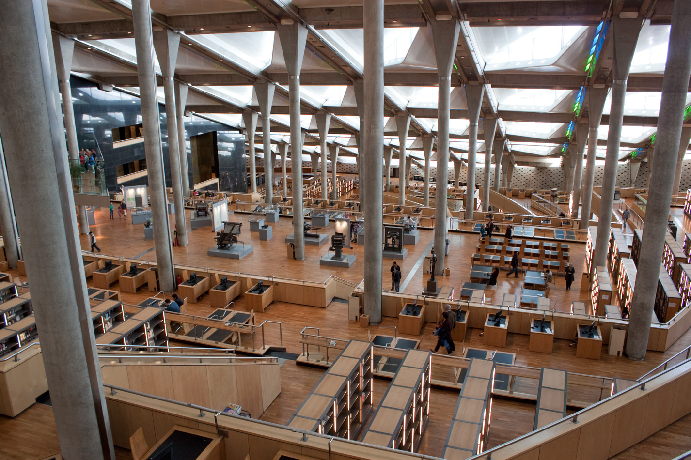 Bibliotheca Alexandrina